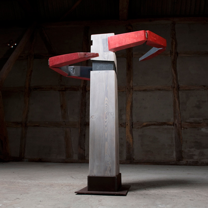 Sculpture by Monika Müller-Klug